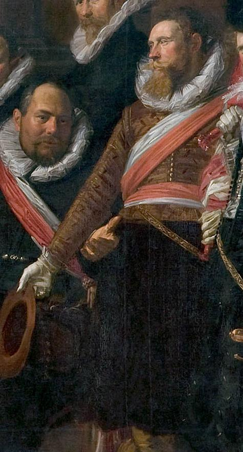 Portrait of Gerrit Cornelisz. Vlasman in The Banquet of the officers of the Saint George Civic guard in Haarlem in 1616, detail